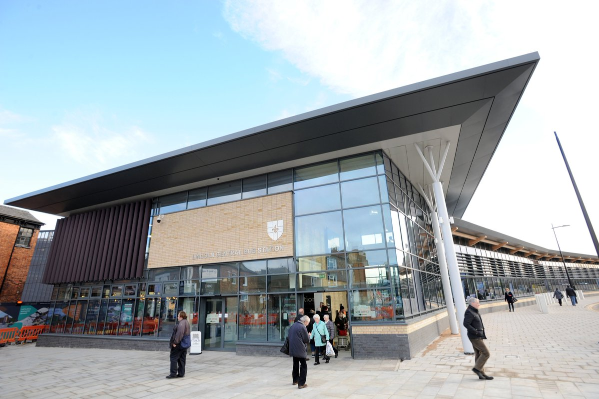 Main entrance to Lincoln central Bus Station